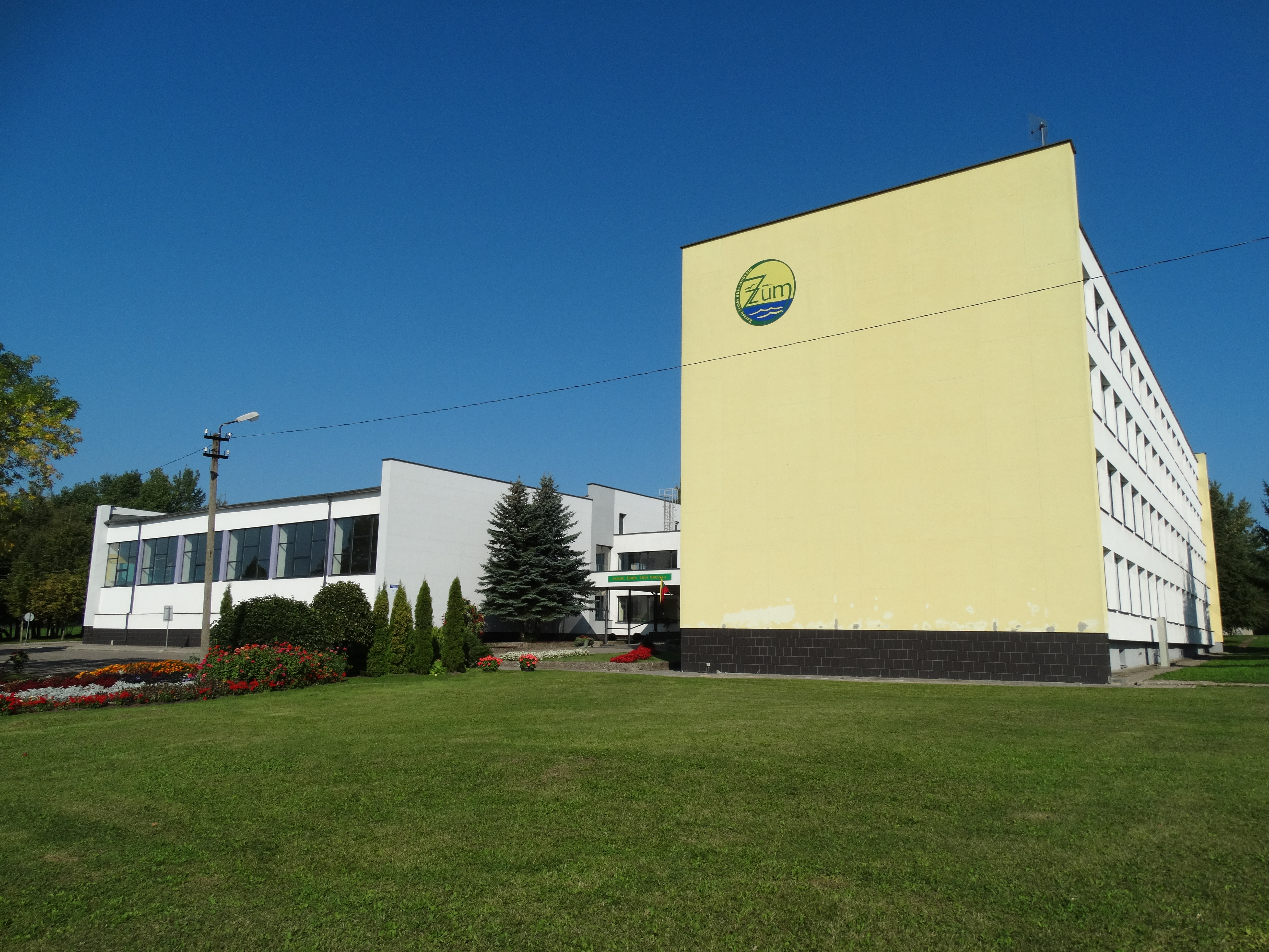 Agriculture School, Dimitriškės, Zarasai District, Lithuania